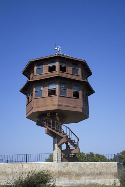 Observation Tower at Kızılırmak Delta